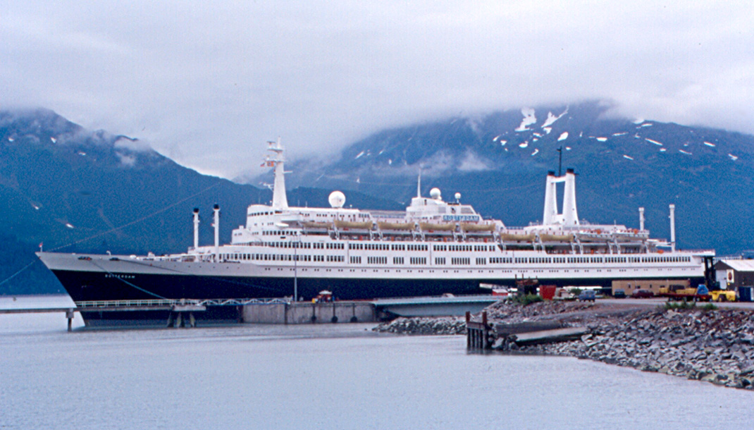 "SS Rotterdam, our cruise ship, at the pier in Valdez, Alaska. It was the fifth Holland America Line ship called the Rotterdam. It was in transatlantic service from 1959 to 1969, then converted to cruising. The ship carried about 1,000 cruise passengers. The Rotterdam was retired by Holland America at the end of this season (1997)."